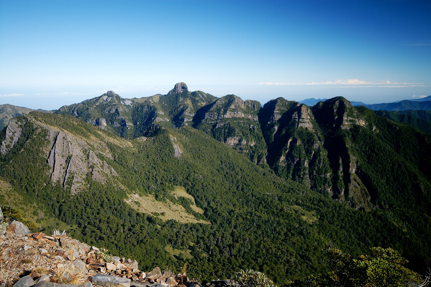 Dabajian and Xiaobajian Mountains 大、小霸尖山群峰